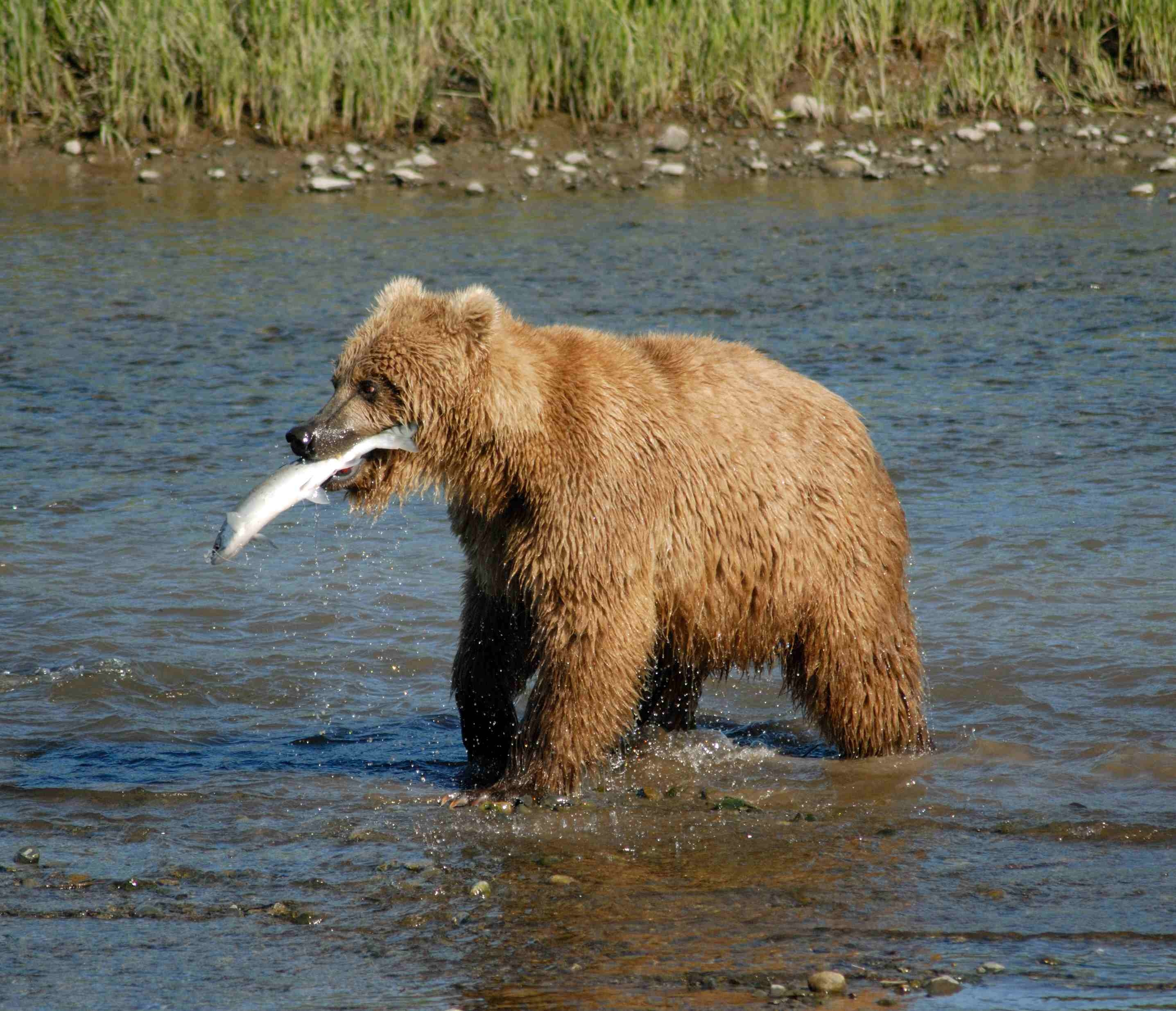 To learn more about Alaska, visit my my Alaskan website.